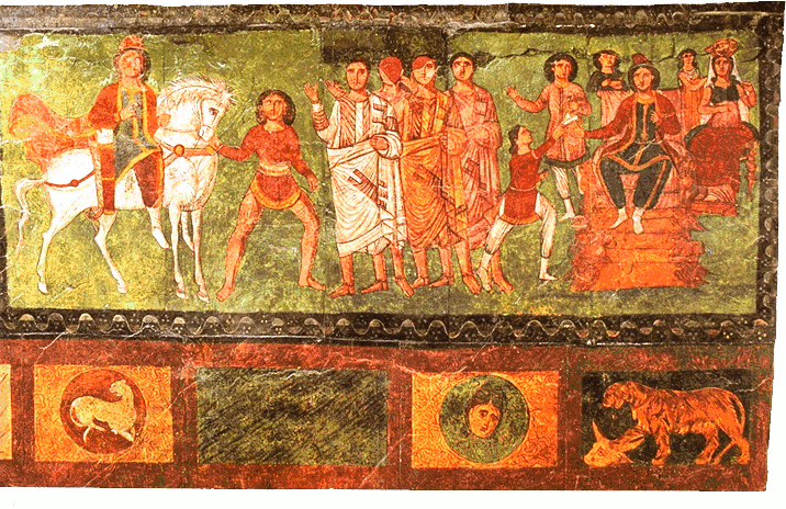 Image of part of the fresco at the Dura-Europos synagogue. This image, illustrating a scene from the Book of Esther, was taken from Goodenough, Erwin Ramsdell (1968) [1953] Jewish Symbols in the Greco-Roman Period, Category:New York: Pantheon Books A complete copy of the fresco is on display at the History of Art Department at Yale University.